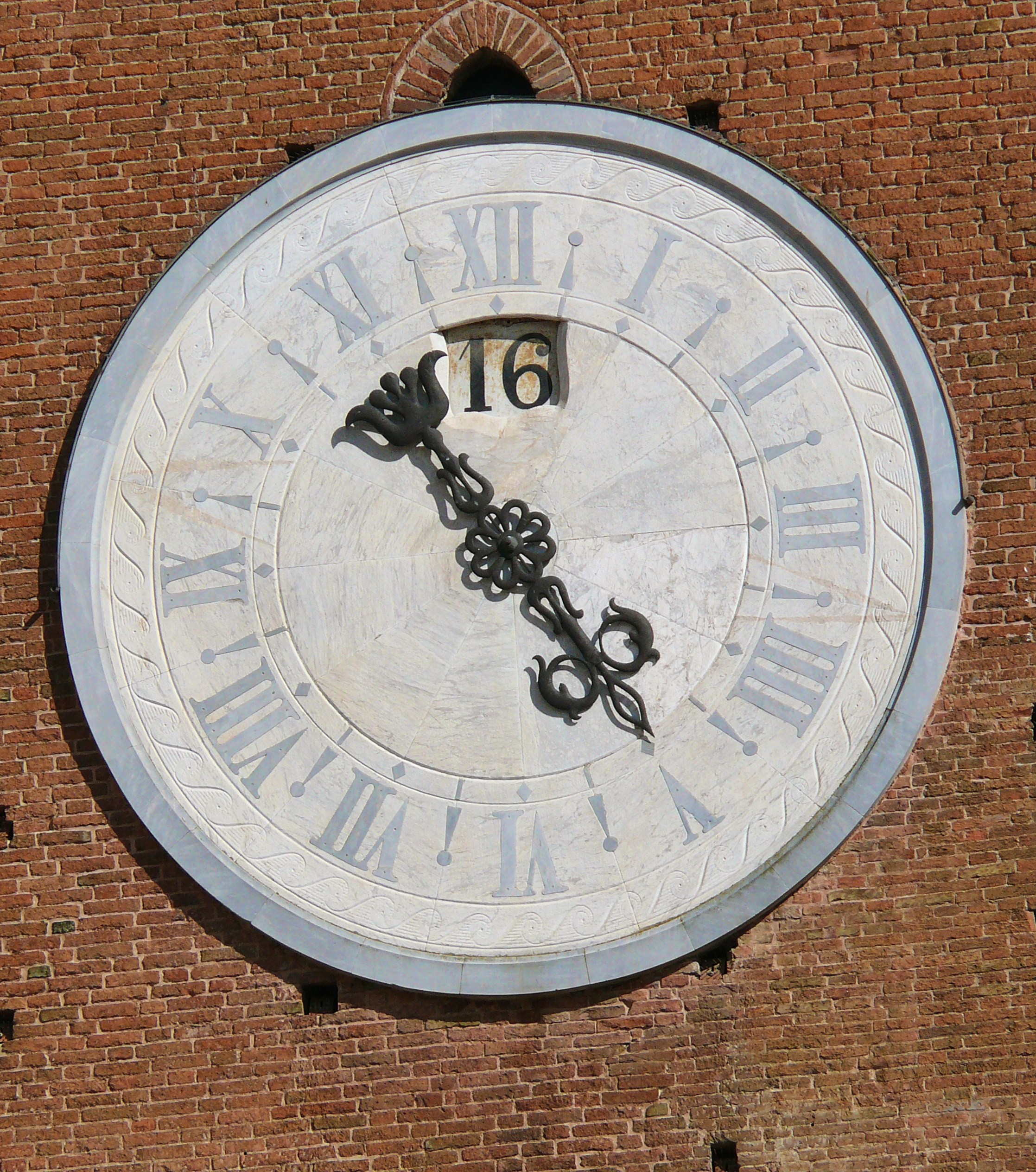 tower clock of Torre del Mangia in Siena